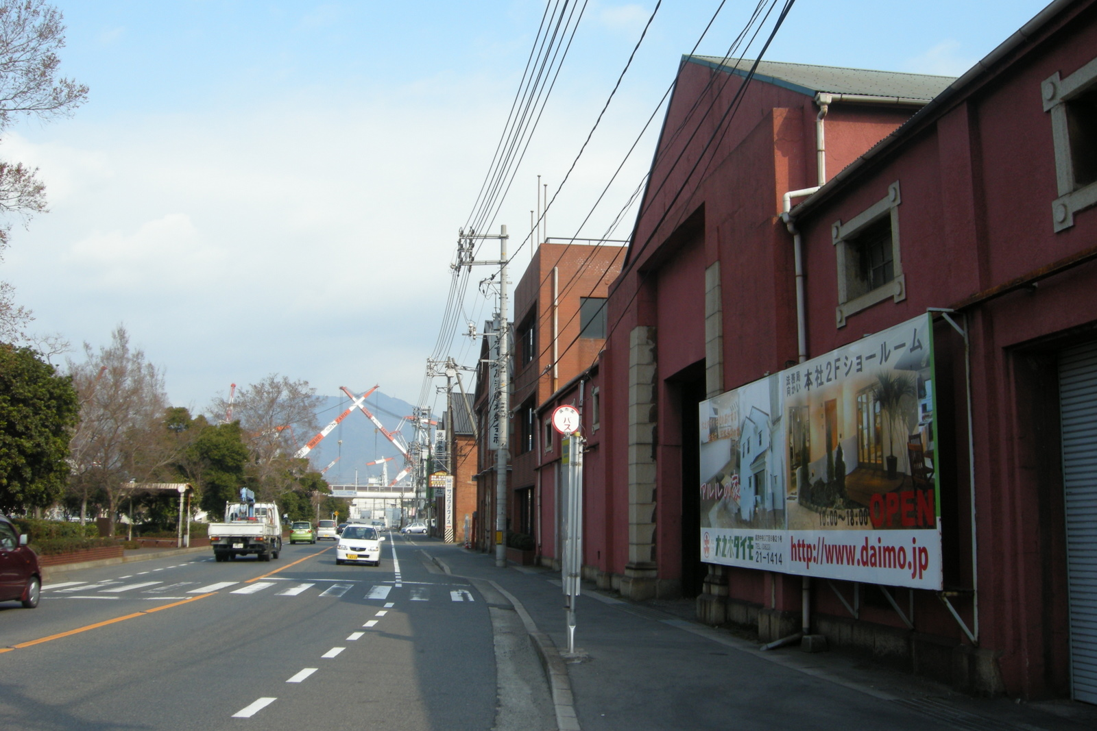 貿易倉庫前 Trade warehouse